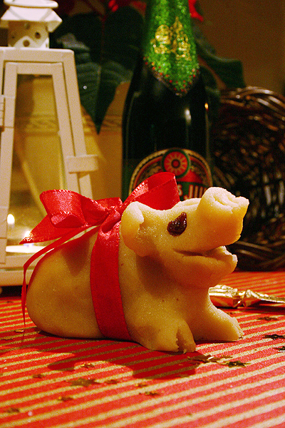 Photo of the danish traditional price to the winner of the almond at the Christmas dinner. The price is molded as a pig in Marzipan.